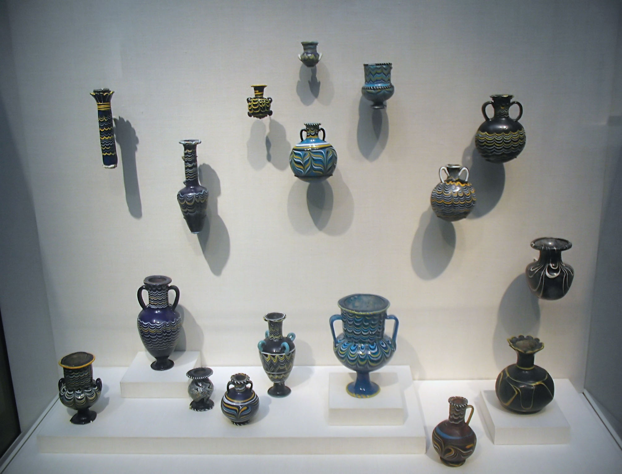 Egyptian miniature glassware vessels, from the New Kingdom, dated to the 18th Dynasty 1550-1307 BC. The method of production was to wind threads of molten glass around a core of sand, clay, and mud. These vessels were used mainly for storing perfumed ointments, scented oils, and cosmetics. They are thought to have been produced in royal workshops during the reign of either Amenhotep III or Akhenaten. From the Freer and Sackler Galleries of Washington D.C. Author: User:PericlesofAthens Date: August 3, 2007